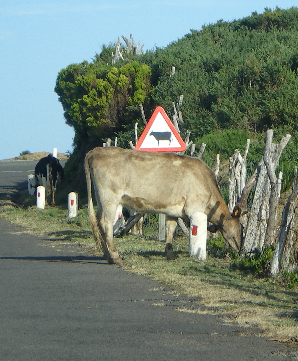 A clearly-appropriate warning about roaming cows in Madiera